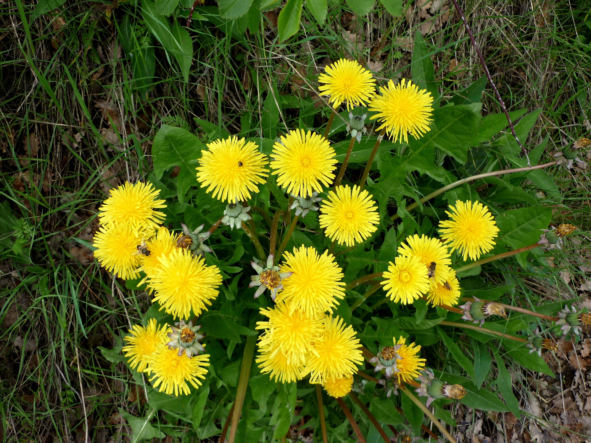 Taraxacum sect. Ruderalia. In Riner (Solsonès-Catalunya). To 810 m. altitude